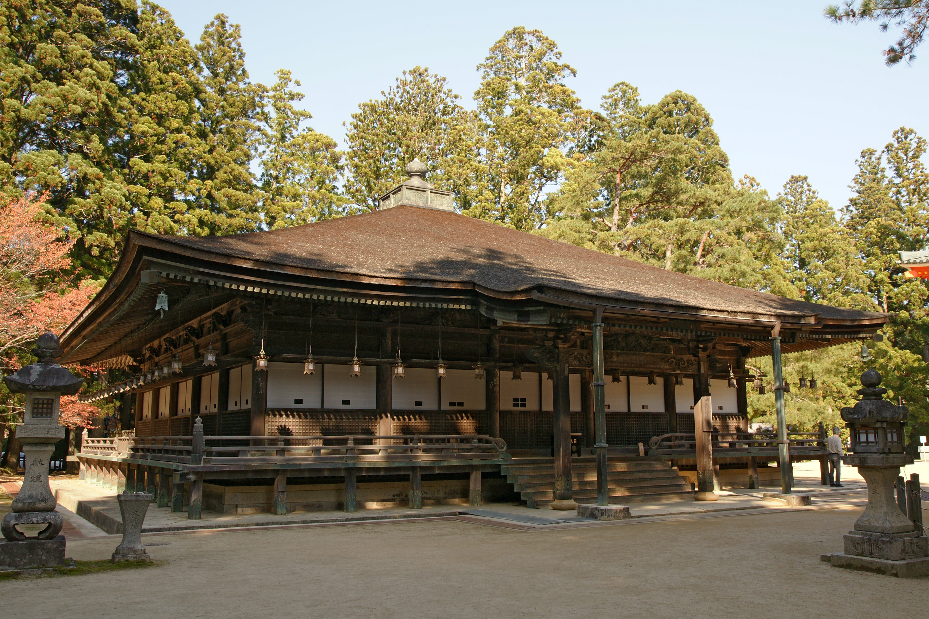 Danjōgaran in Mount Kōya, Wakayama prefecture, Japan.